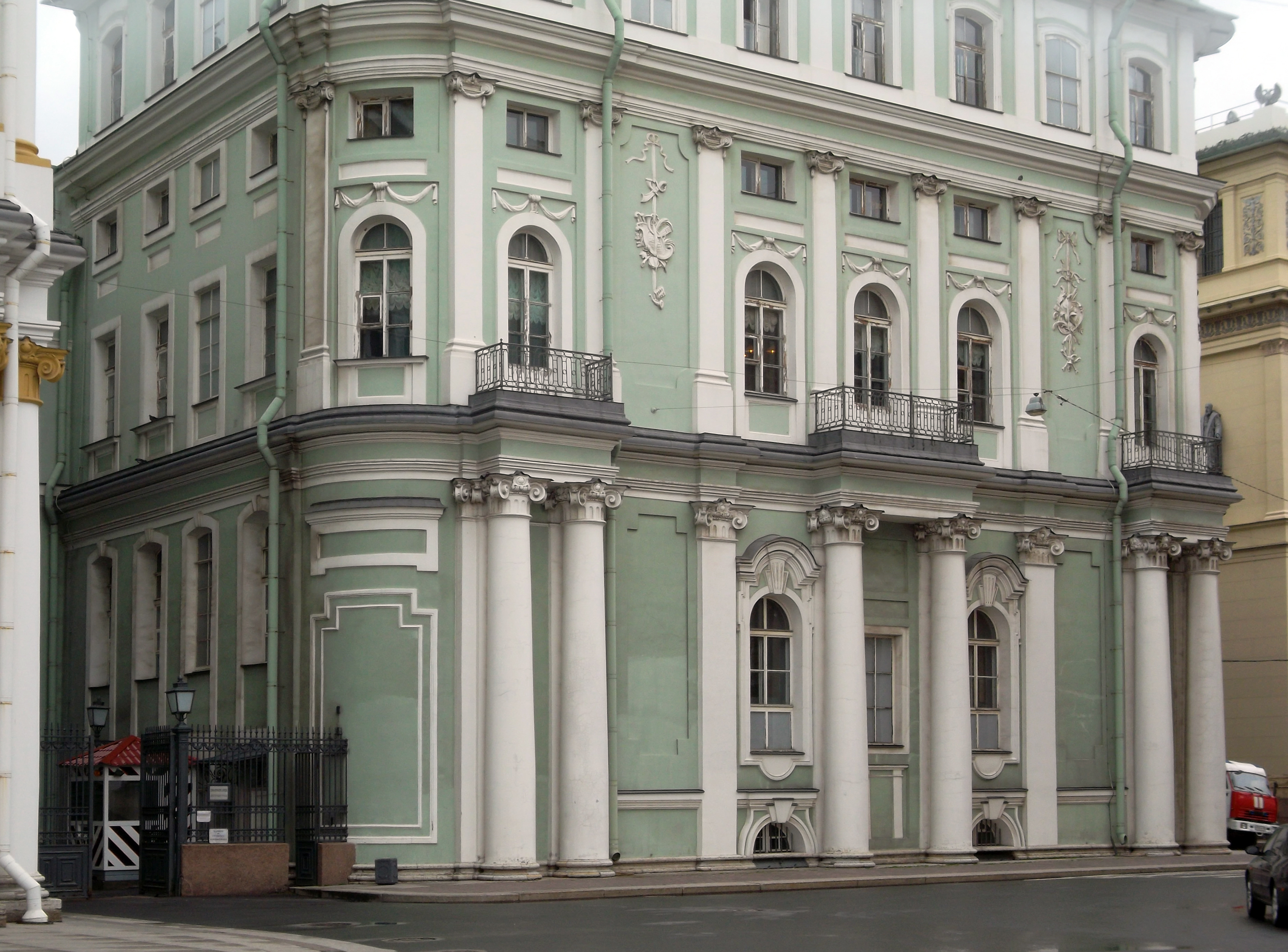 South Pavillon of The Small Hermitage. Millionnaya Street/The Palace Square, St. Petersburg